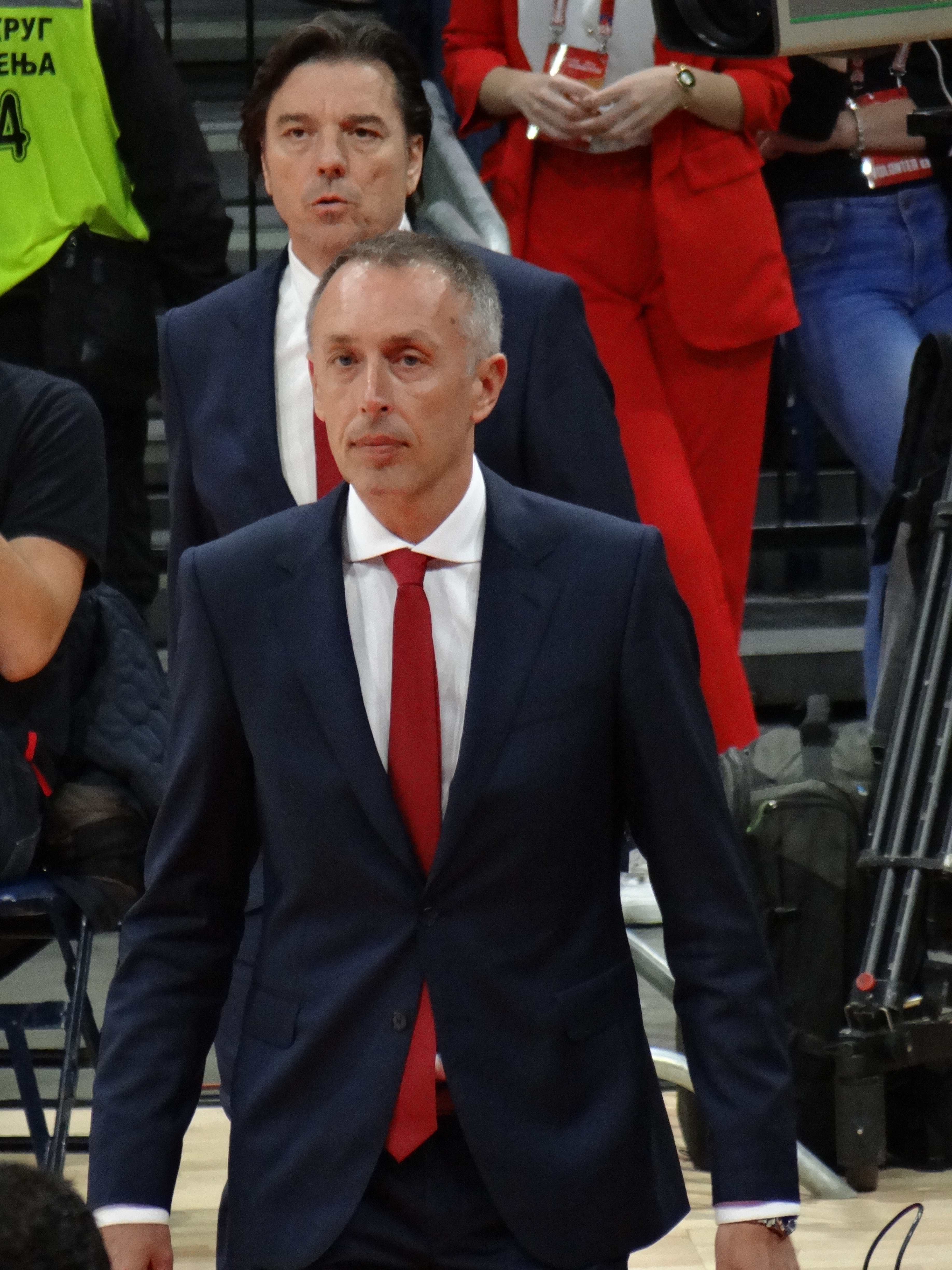 Milan Tomić KK Crvena zvezda EuroLeague 20191010